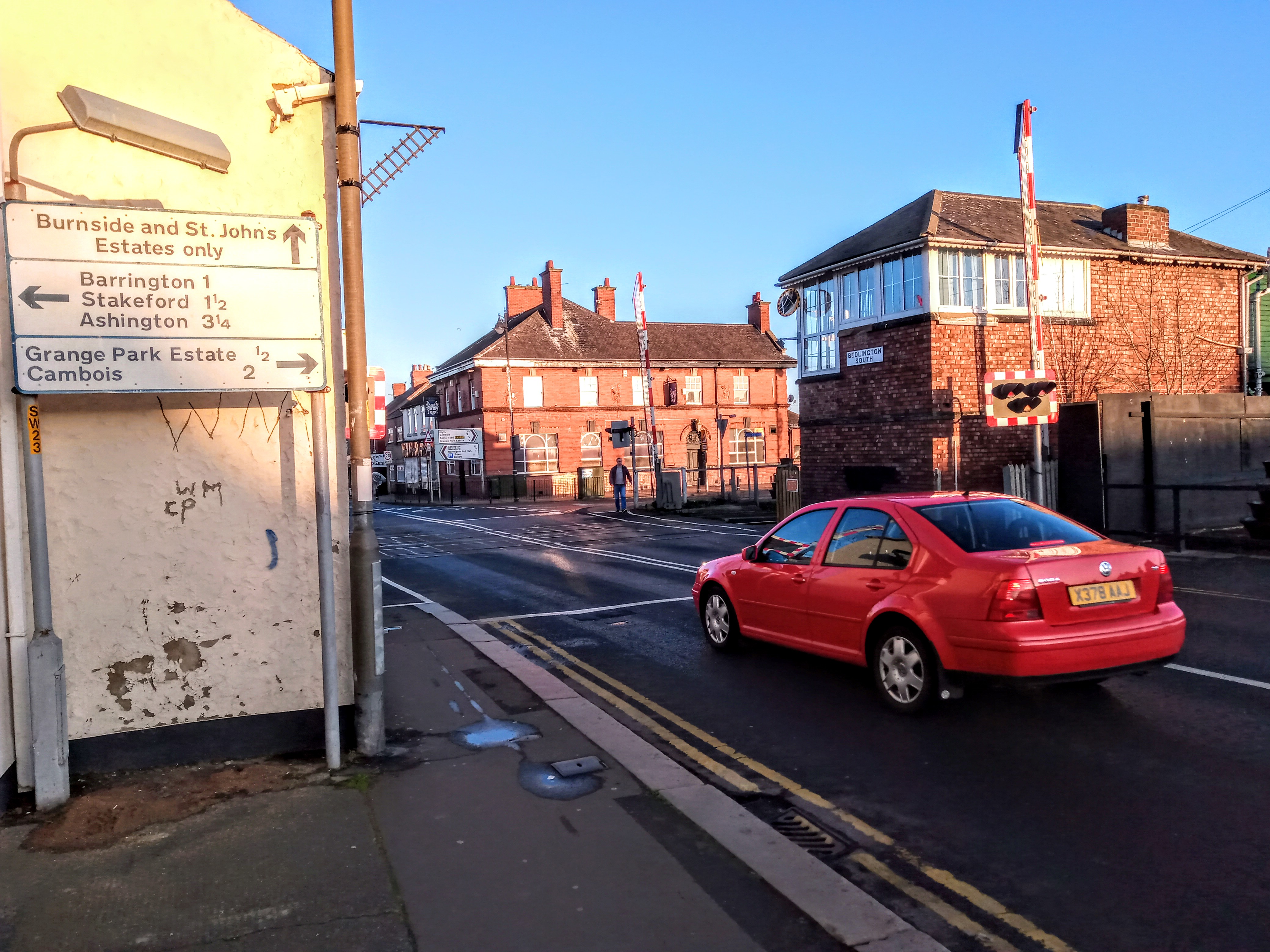 Bedlington